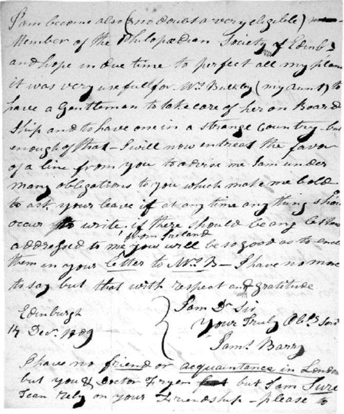 Second page of a letter written by James Barry, the medical student, to Daniel Reardon, the family solicitor.